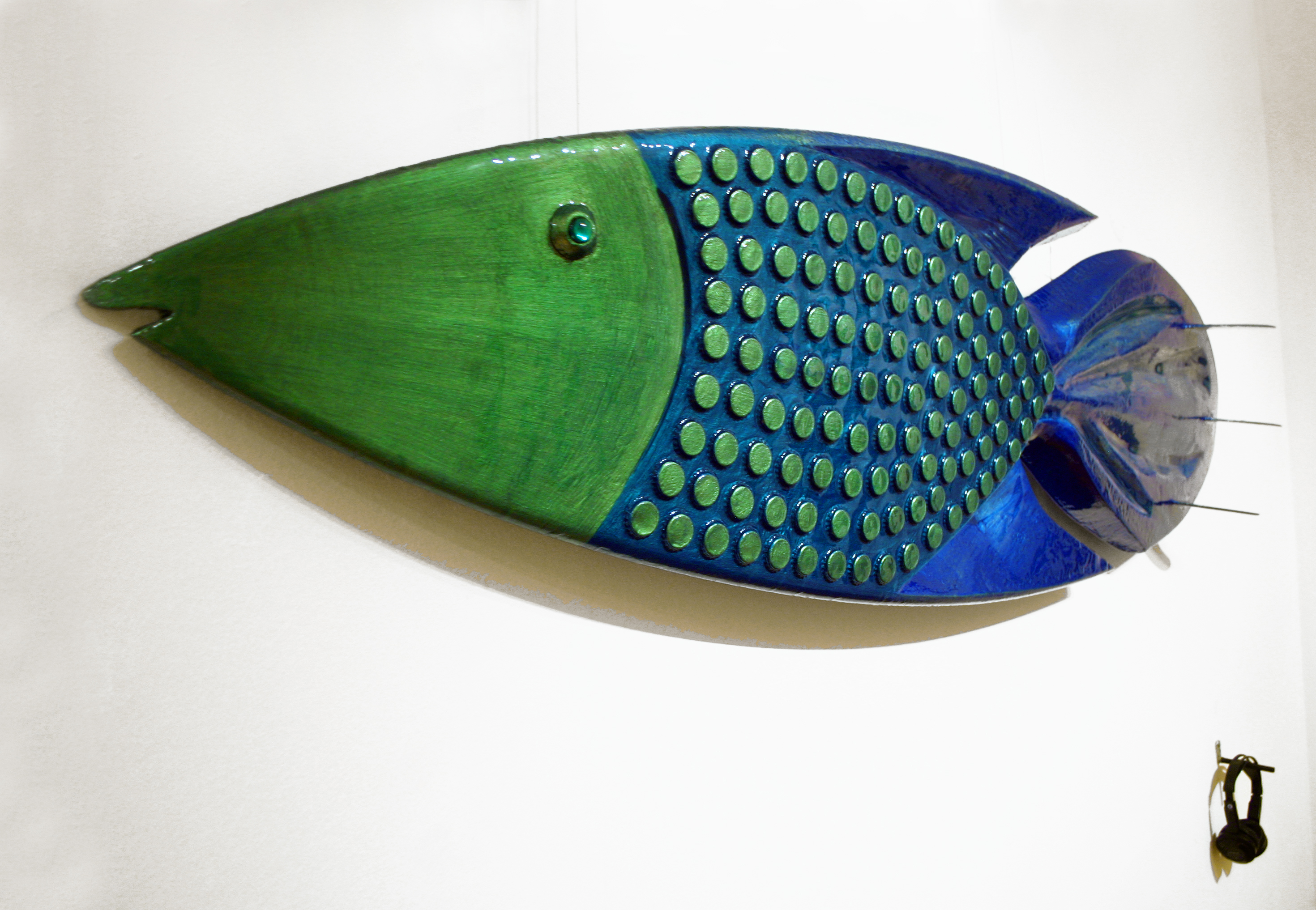 "LURE #3" a 2007 recycled-surboard sculpture by Greek-Californian contemporary artist Ithaka Darin Pappas (from the series entitled, Lure) as shown at Gallery WOA in Lisbon, Portugal for his exhibtion, The Reincarnation Of A Surfboard - 2007. Photo by Ithaka Darin Pappas